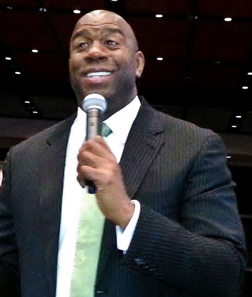 Magic Johnson giving a speech at the George R. Brown Convention Center in Houston, Texas on April 25, 2013.